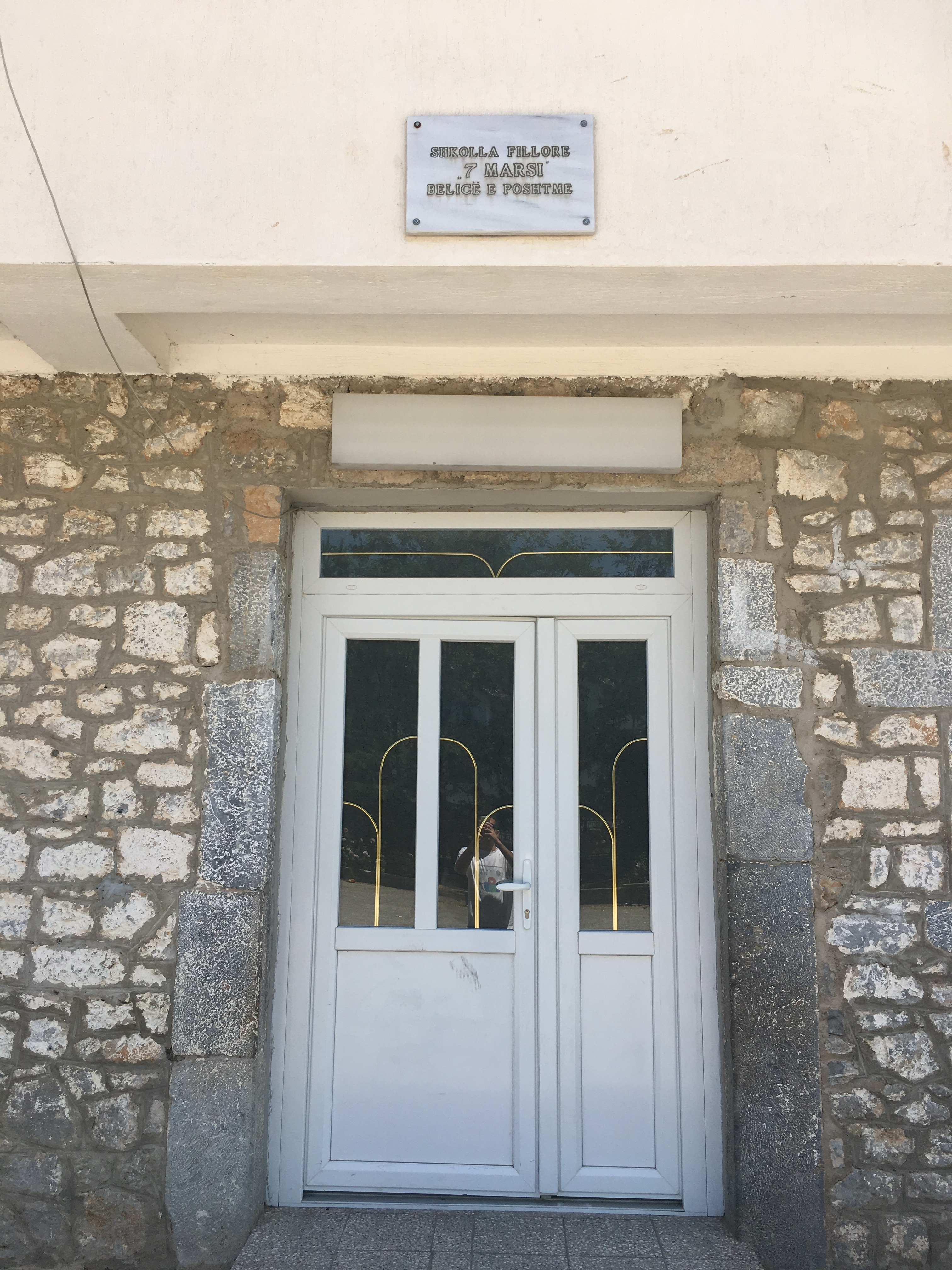 The entrance of Edinstvo Primary School in the village of Dolna Belica